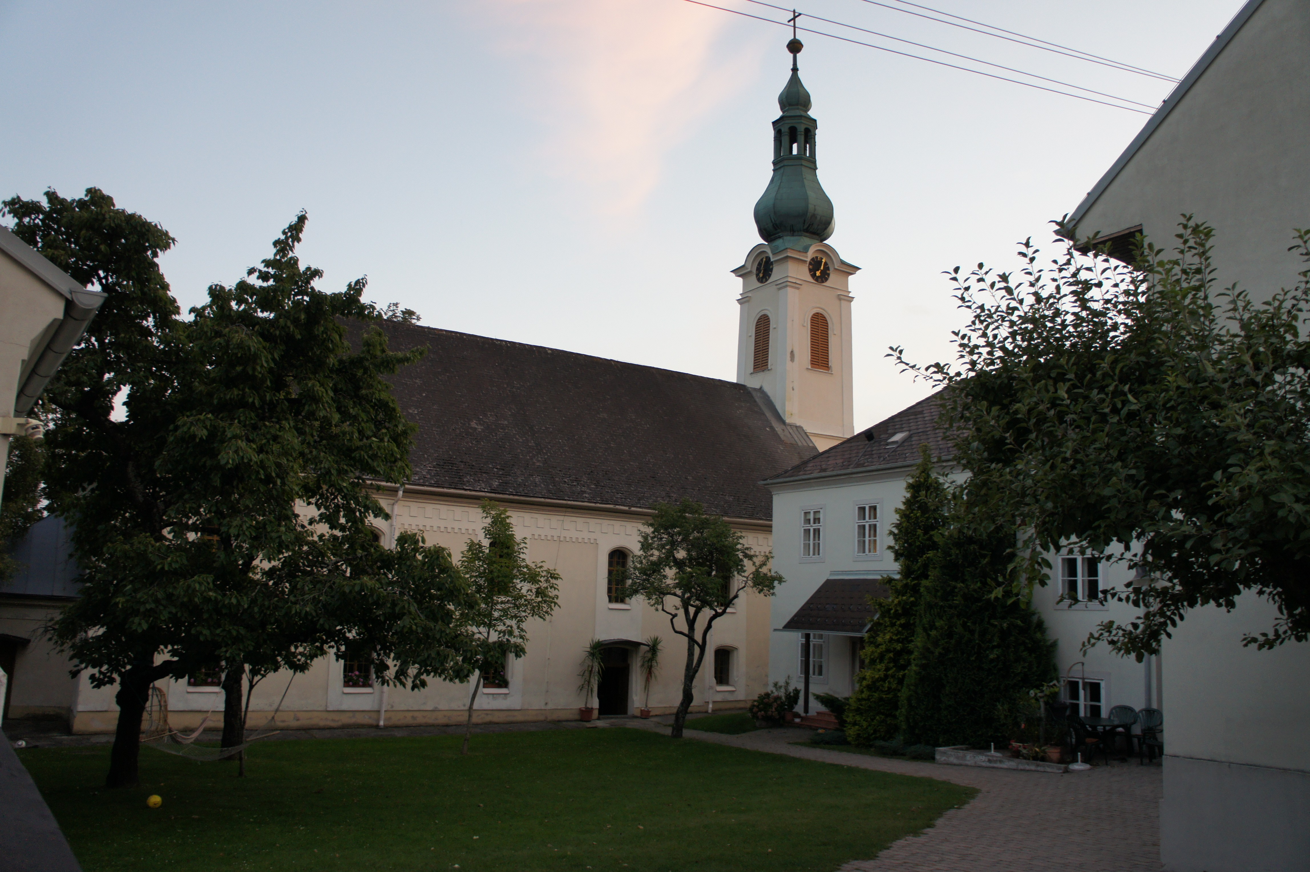 Evangelic church CA, Bernstein, Austria